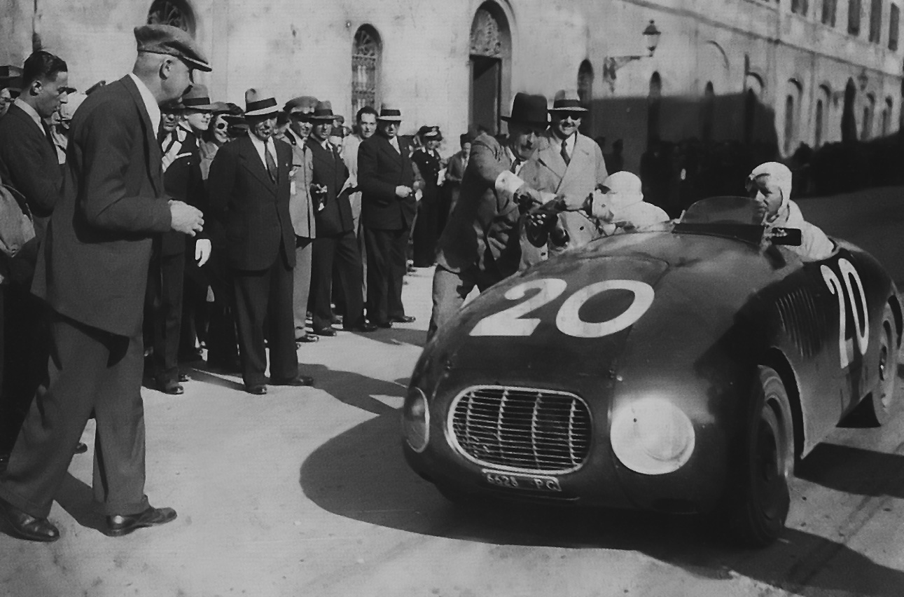 Entry #20 at Mille Miglia in Italia on 3 April 1938 was 750 ccm built by Vittorio Stanguellini, based on a 500ccm engine from Fiat Topolini. The body was made by Carrozzeria Torricelli.[1] This car was driven in this race by Giulio Baravelli (right, driver) and Adelmo Sola (co-driver, partly hidden). They ended in 50th place overall which is quite good with such a tiny car; they won the 750ccm class.[2]